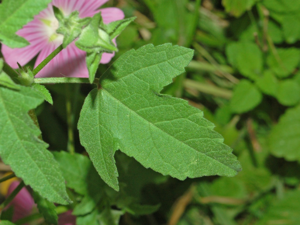 Lavatera punctata - Genova, Italy